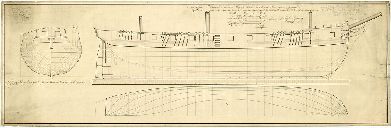 MYRMIDON 1813 lines & profile